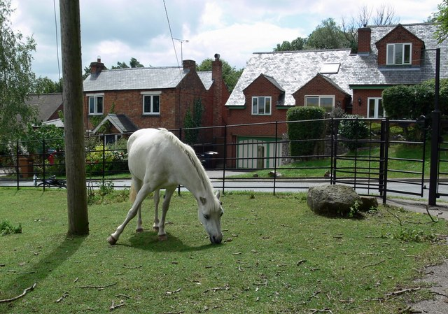 Ragdale in Leicestershire The horse is grazing the entrance to All Saints Church.